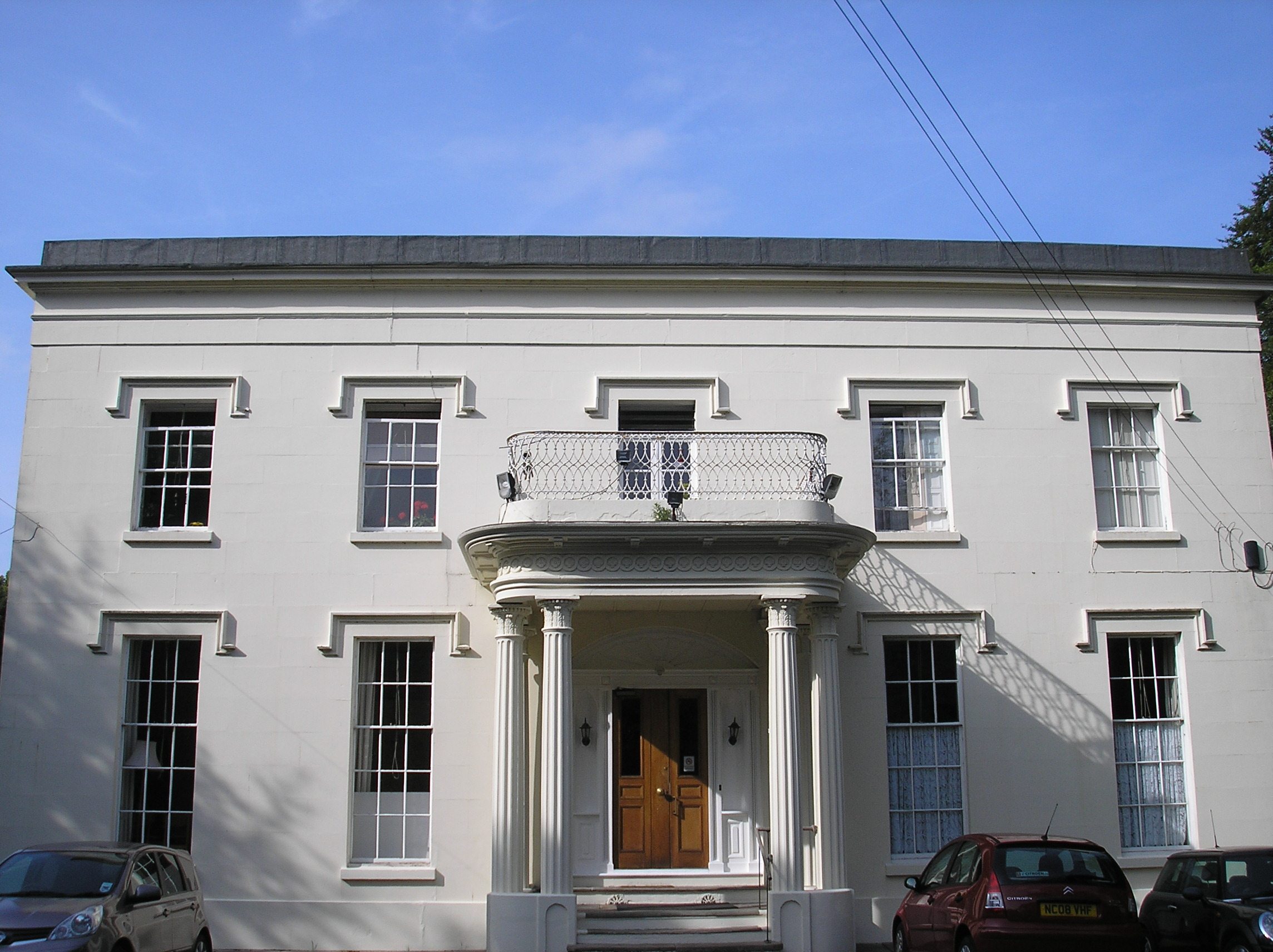 Photo of entrance to Loyola Hall, Rainhill